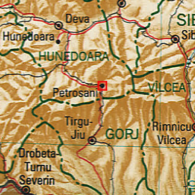 Map of Petroșani Municipality, Romania.